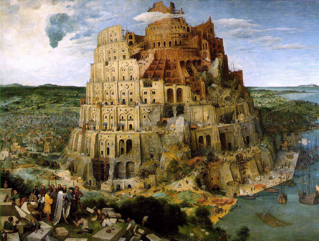 The Tower of Babel. Bruegel painted three versions of the Tower of Babel. One is kept in the Museum Boijmans Van Beuningen in Rotterdam (see Category:The Tower of Babel (Rotterdam)), the second in the Kunsthistorisches Museum in Vienna, while the location of the third version (a miniature on ivory) is unknown.